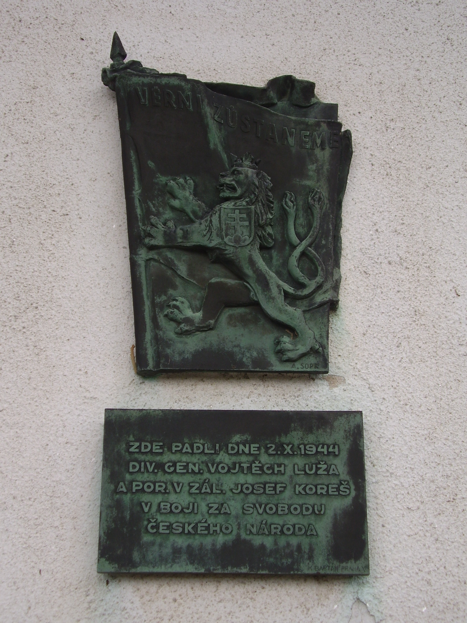 Memorial killed people in nacizm revolt in year 1944 2. world war: Vojtěch Luža, Josef Koreš in Přibyslav part Hřiště